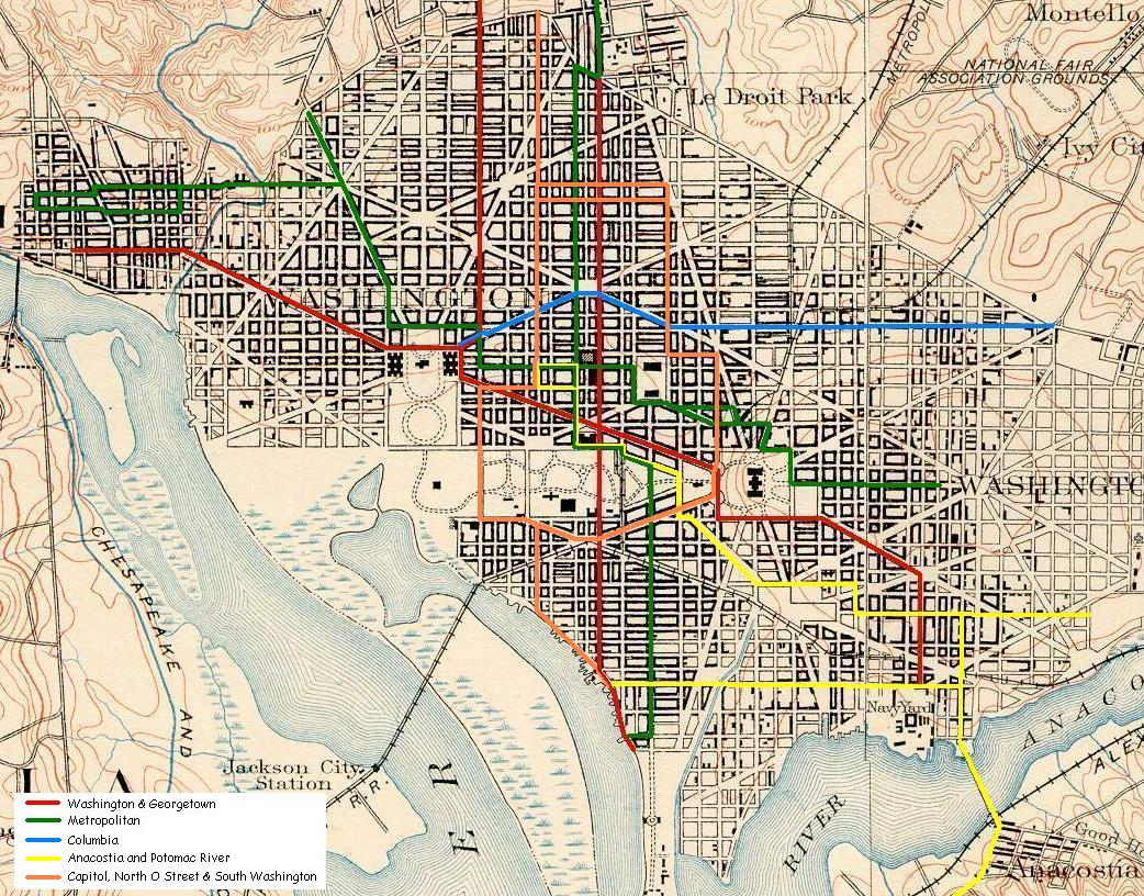 This map is a combination of two U.S. Geological Service maps. The 1886 Northwest Quadrant of the Upper Marlboro-East Washington, DC Quadrangle map and the 1885 Northeast Quadrant of the West Washington, DC Quadrangle map. These were then modified (cut, drawn on and legend added). URLs ( and These documents are the work of a U.S. Government Agency first published before 1923. My modifications I release to the public domain.